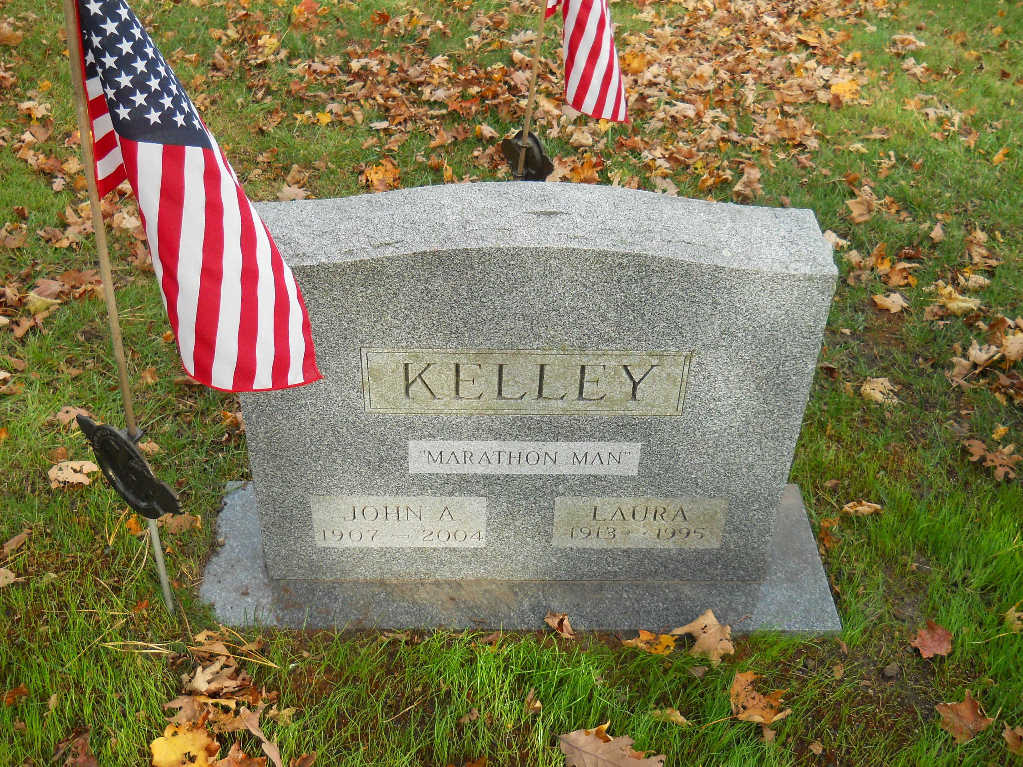 Tombstone of Johnny Kelley- Marathon Man Quivet Neck Cemetery, East Dennis, Massachusetts